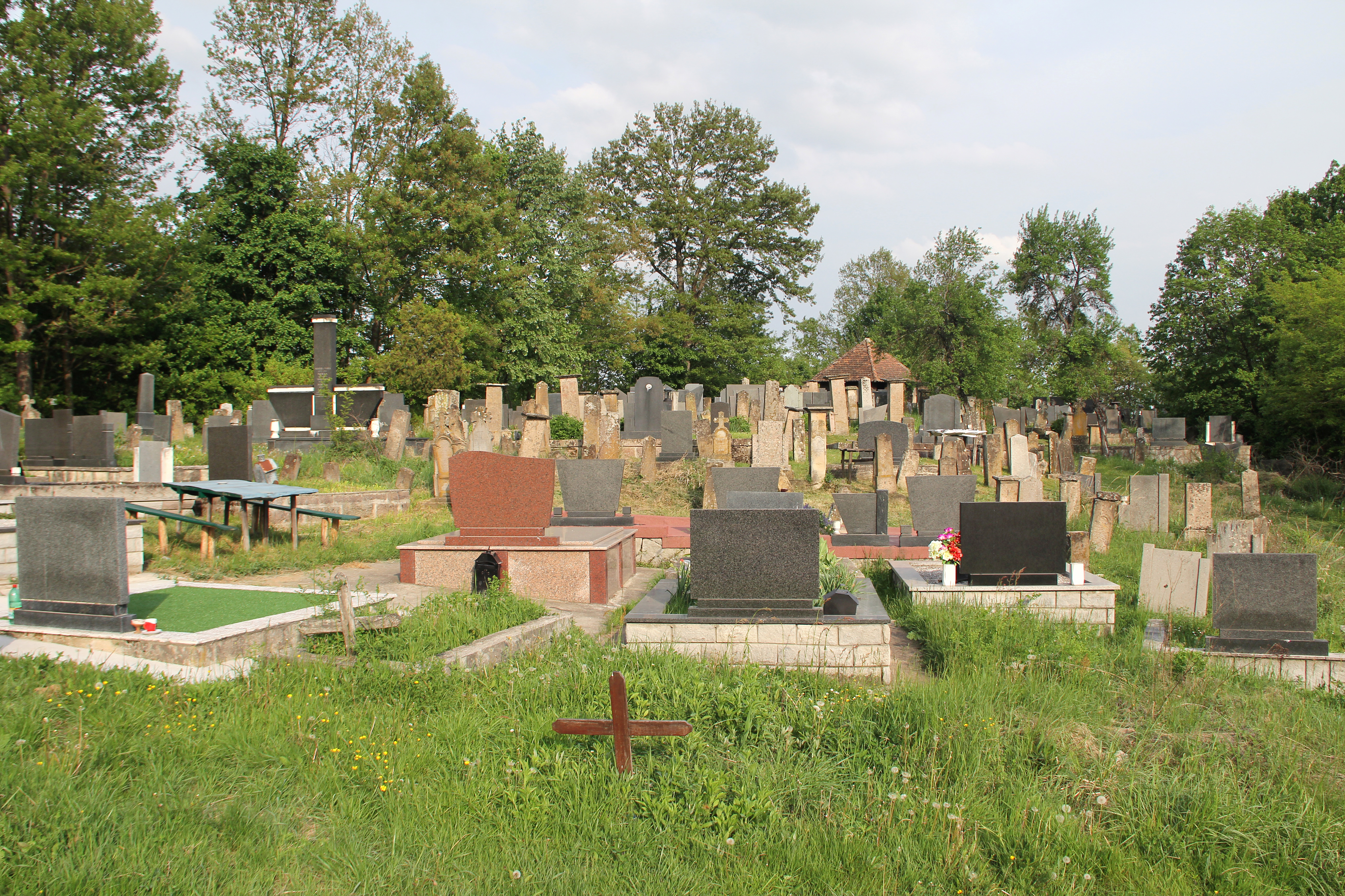 Old gravestones at the cemetery in the village of Drenova (the municipality of Gornji Milanovac), Serbia.